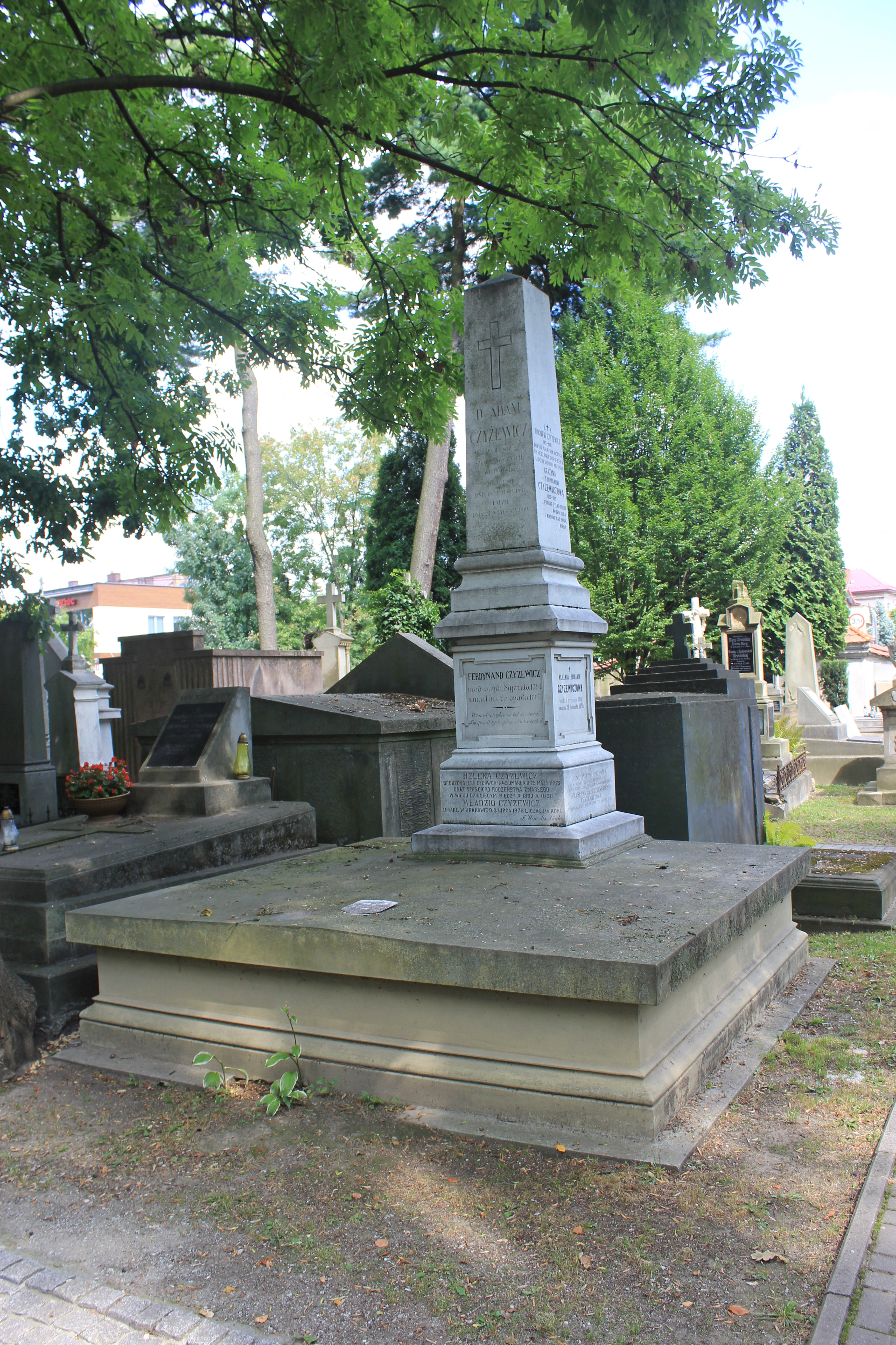 Tarnów - Old Cemetery - Czyżewicz family tomb